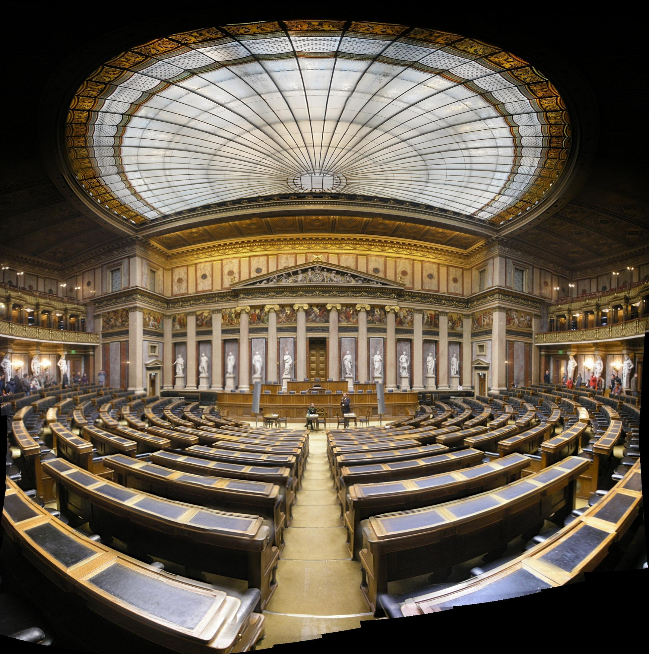 Debating Chamber of the former House of Deputies of Austria, in Vienna.